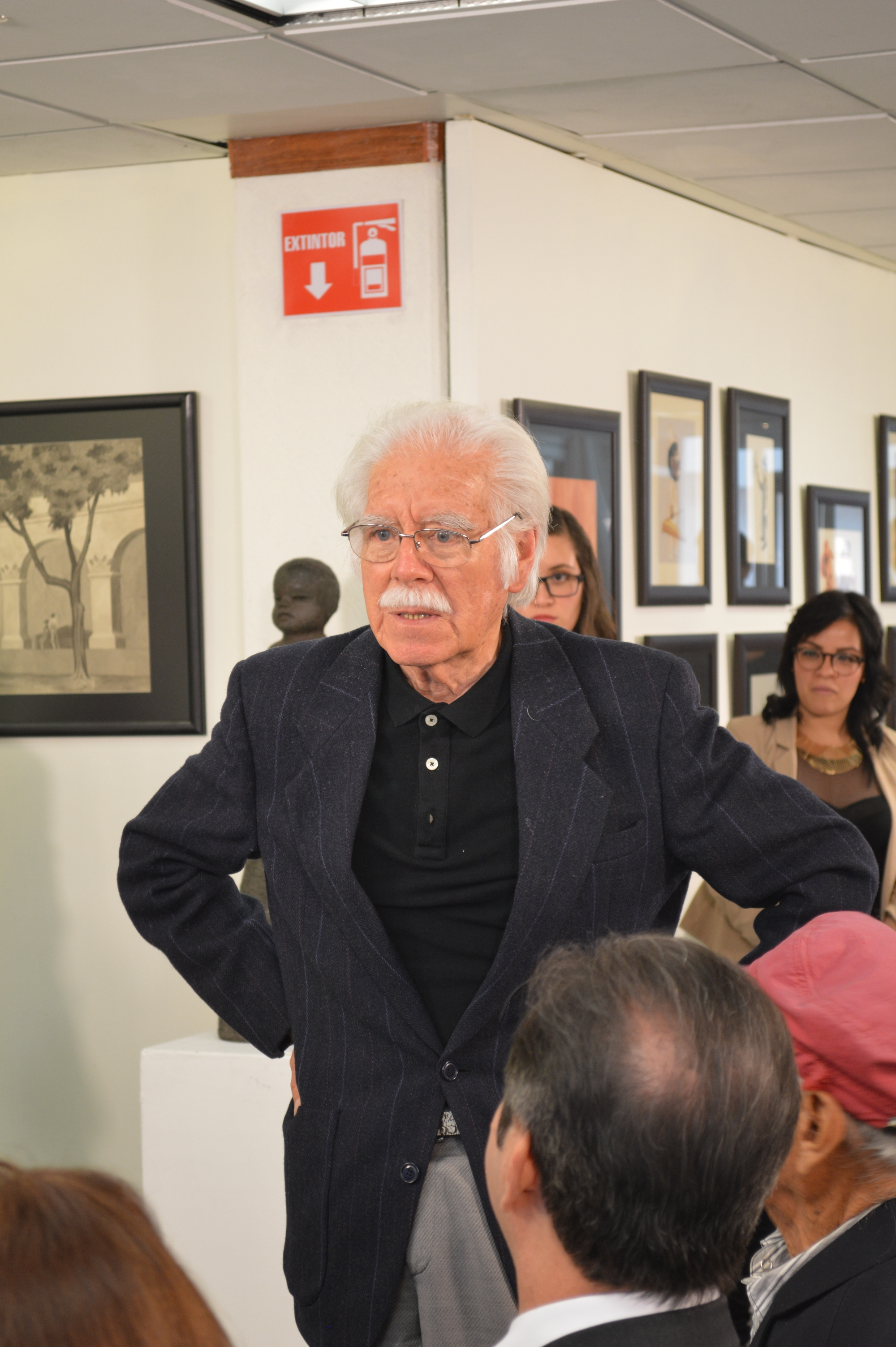 Arturo Estrada Hernández speaking at an exhibition of the work of artist Jorge Tovar at the studios of Televisión Educativa in Mexico City